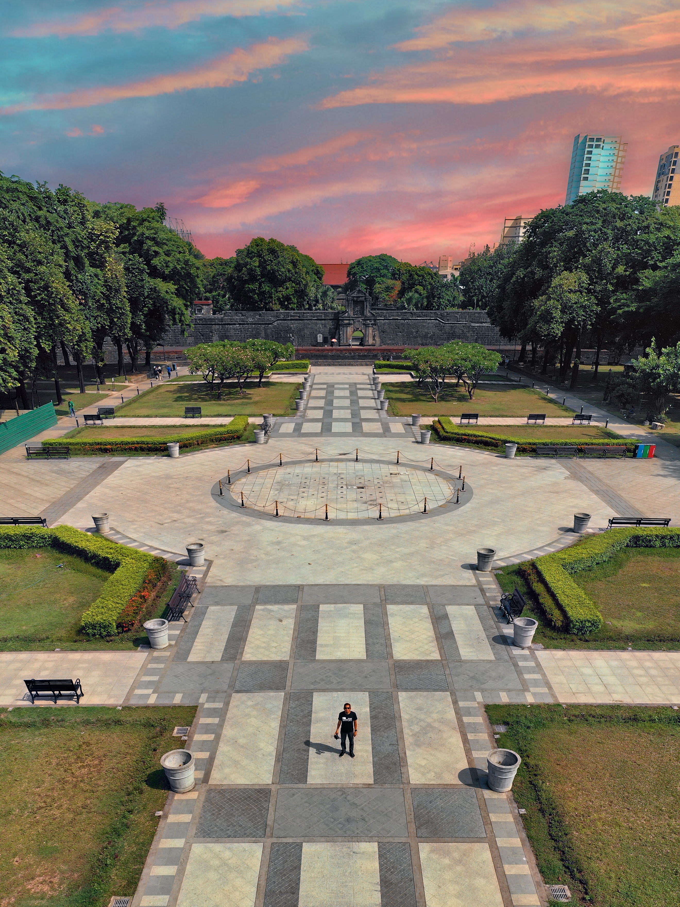 Selfie at Plaza Moriones in Intramuros.